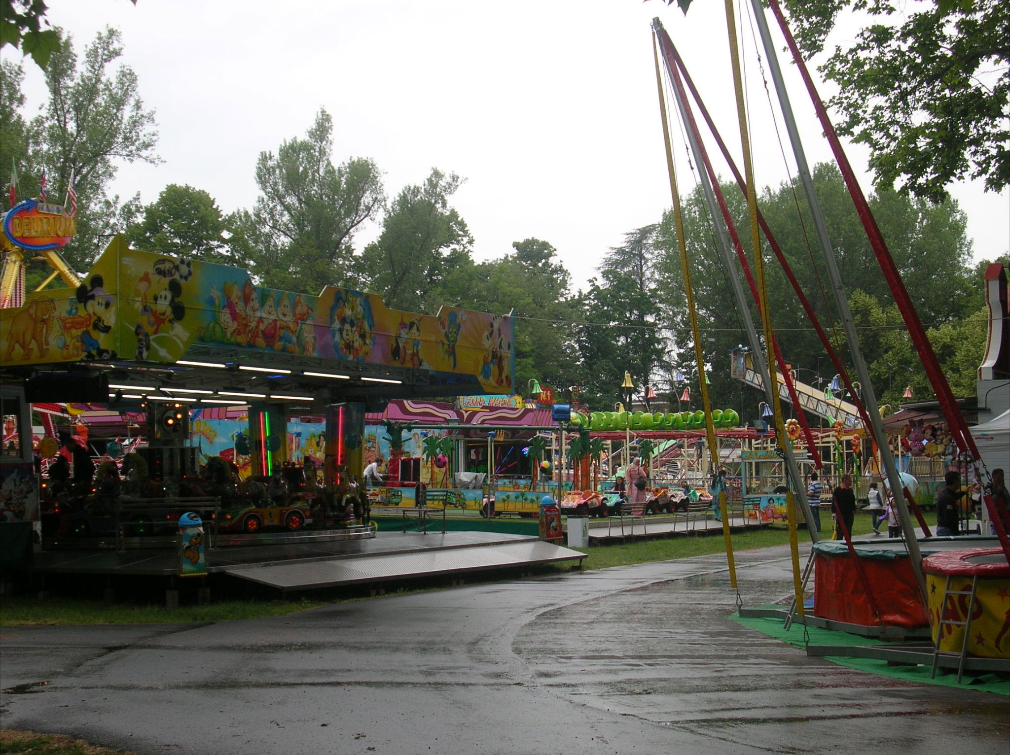 Luna Park at Parma's Citadel.